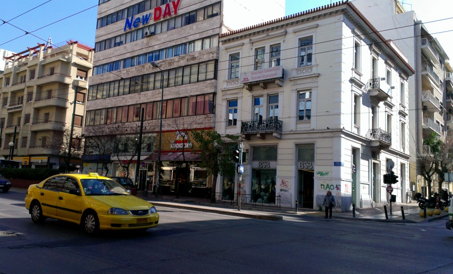 patision